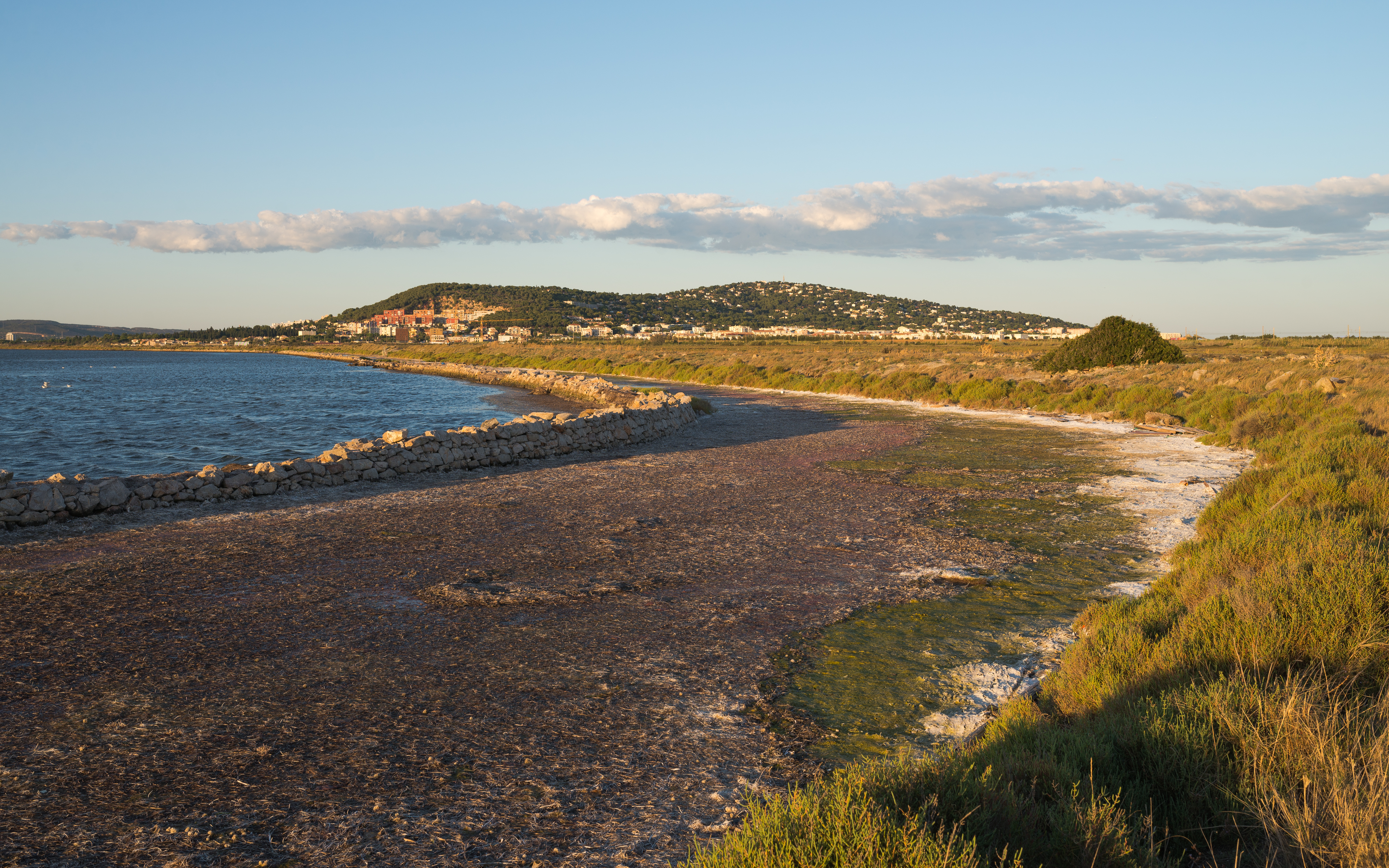 On the left the Étang de Thau and in the background The Mount Saint-Clair and the town of Sète. Today in ruins the wall on the left (cairel in french) was built in the middle of the XXth century.Photo taken from the "Lido de Thau", an area protected by the Conservatoire du littoral. Sète, Hérault, France.